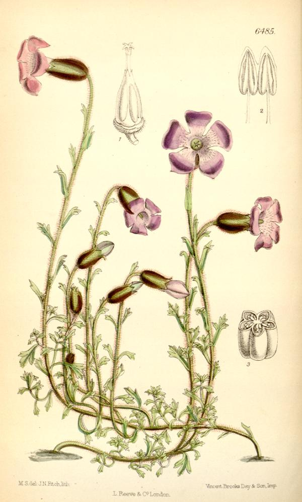 Illustration of Cyananthus lobatus